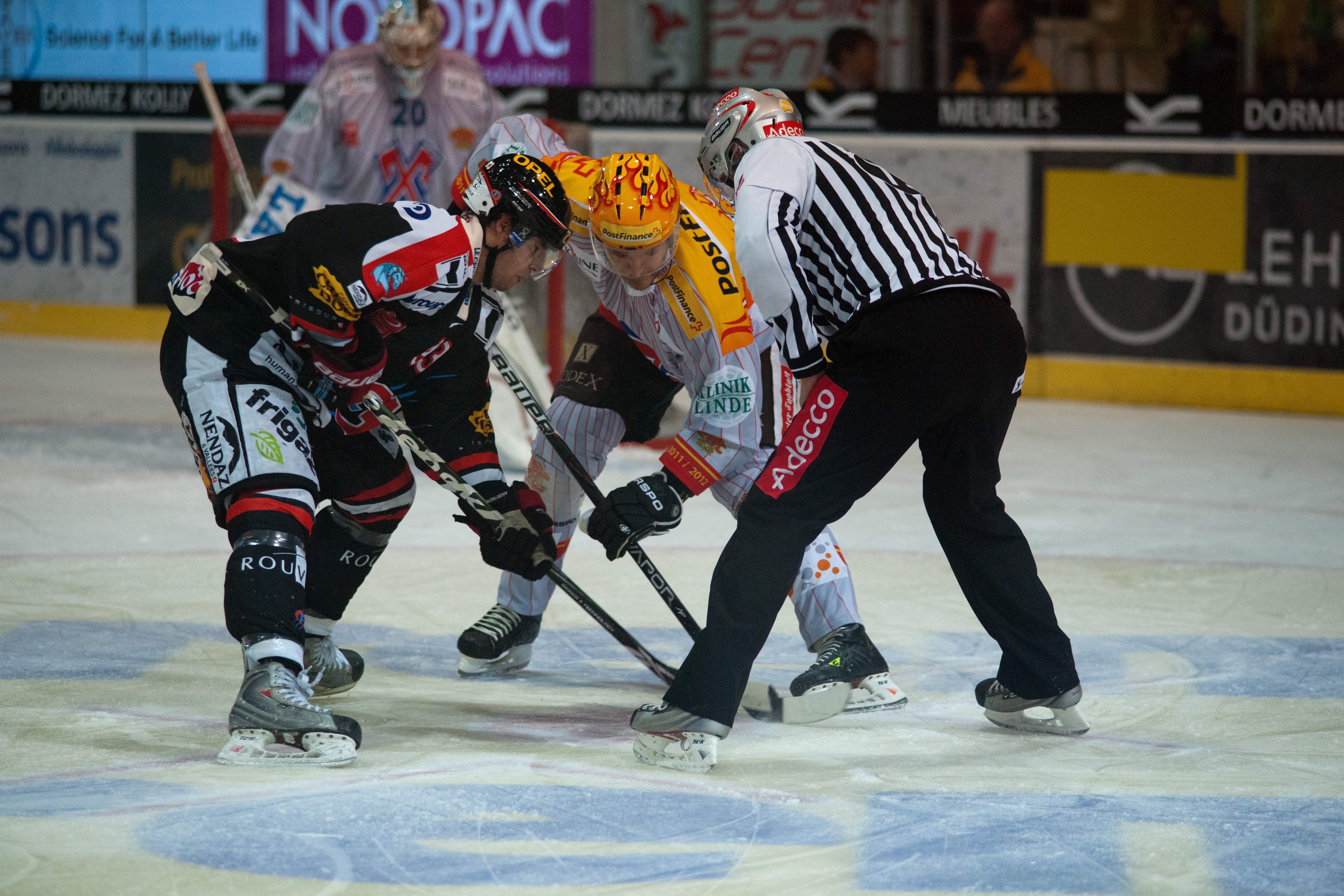 The making of this document was supported by Wikimedia CH. (Submit your project!) For all the files concerned, please see the category Supported by Wikimedia CH. Fribourg-Gotteron vs. HC Bienne, 25.11.2011